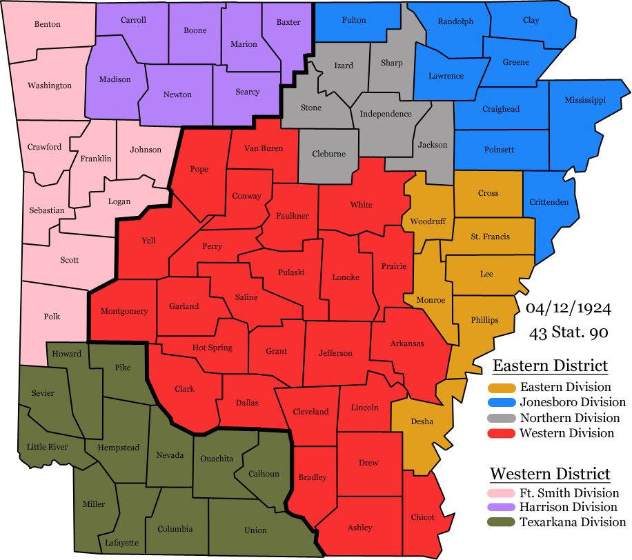 Arkansas districts - 1924